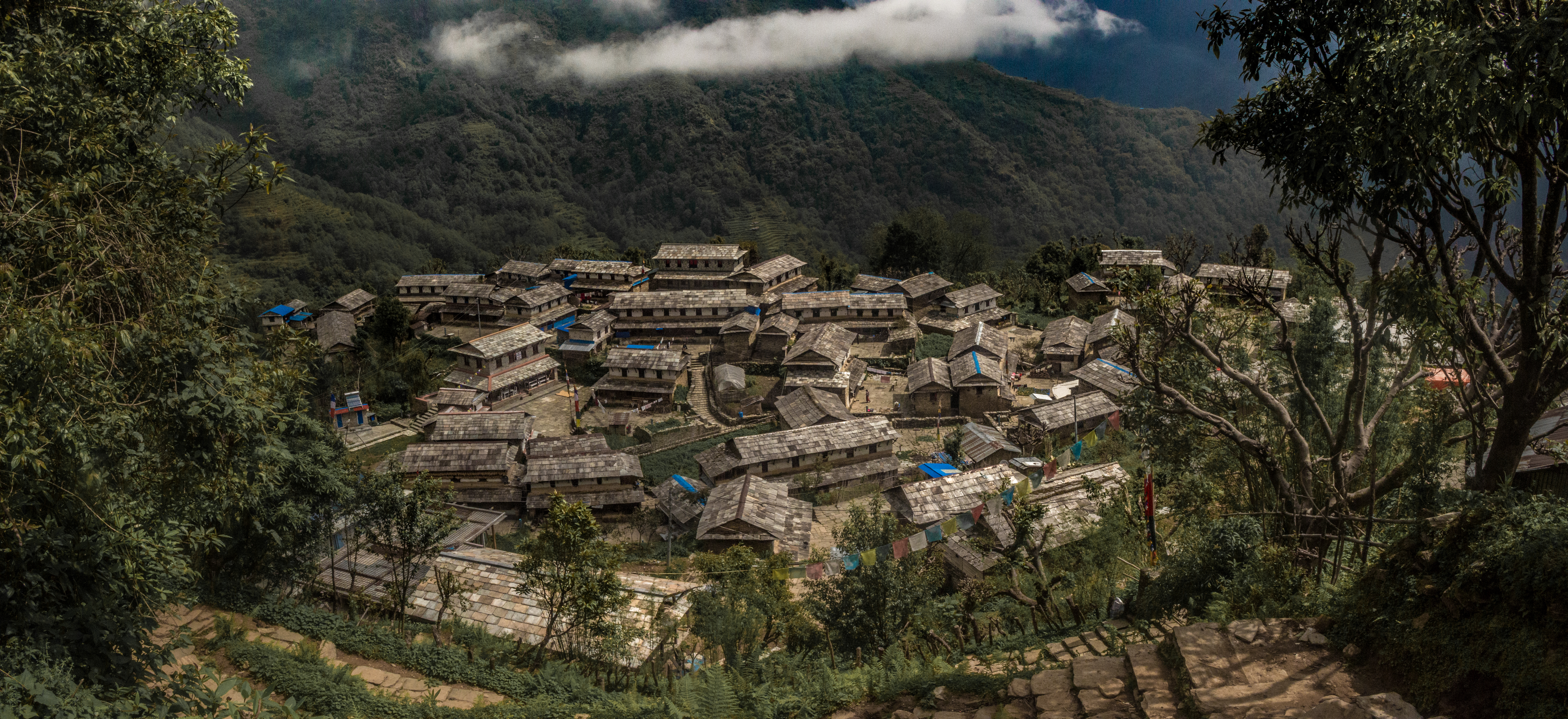 Landscape of Ghandruk Village, May 2018, from the top of the Annapurna trekking route.